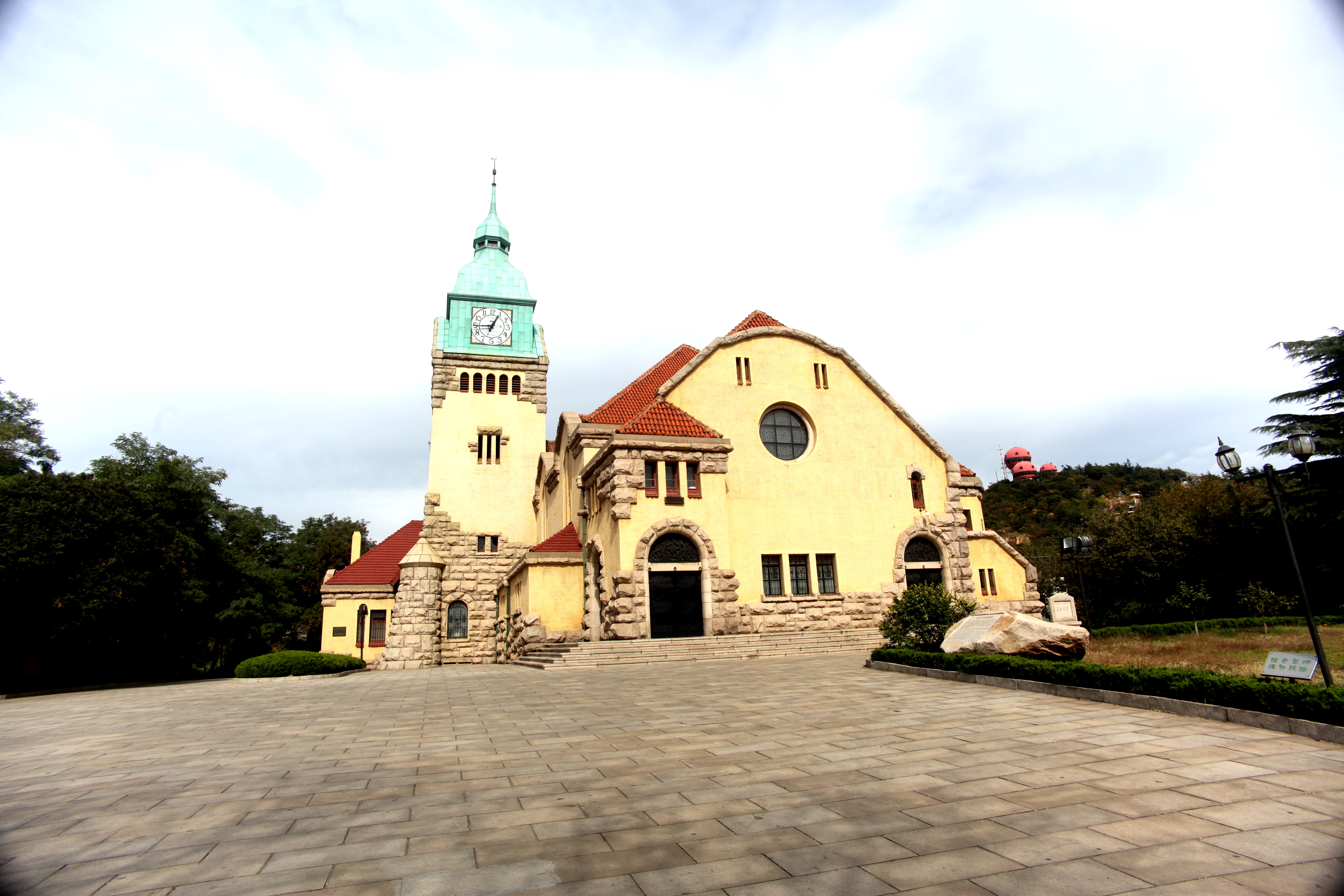 Protestant Church for Tsingtao